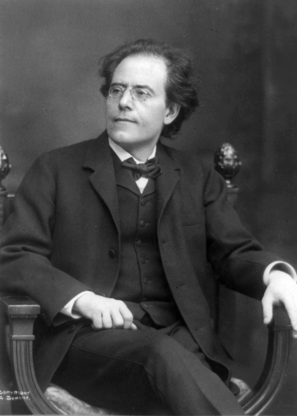 Gustav Mahler, 1860-1911; 3/4, seated, facing left. Copyright was registered in 1909-03-16 under H 124096–124098.[1]